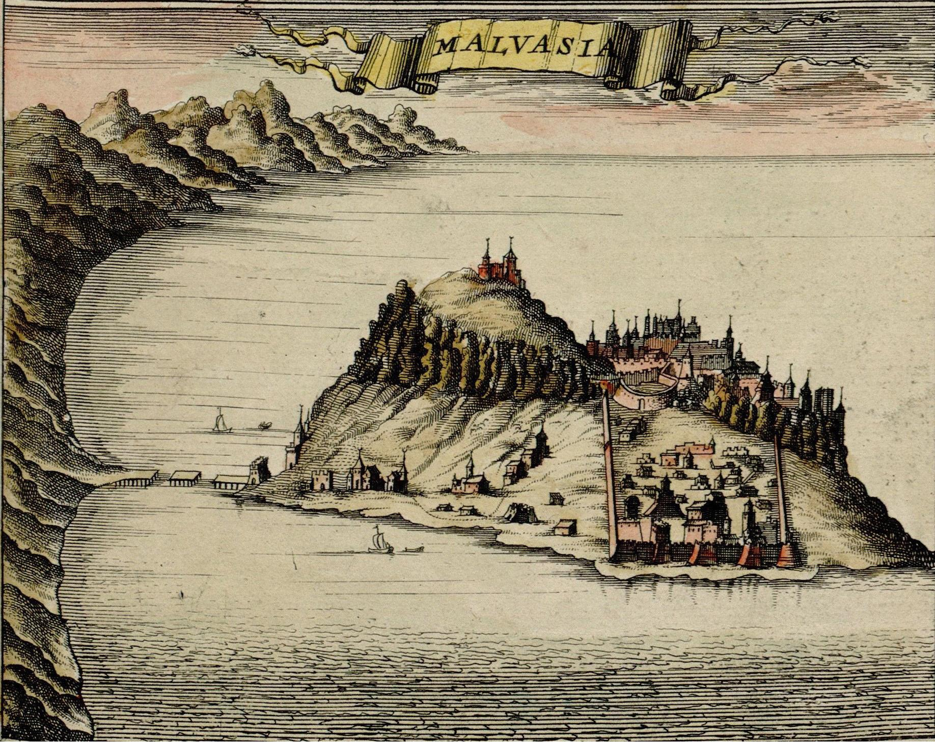 Monemvasia, at the time a venician city, Map made by F. de Witt, Amsterdam, 1680, Beschreibung: Monemvasia, damals venetianisch.